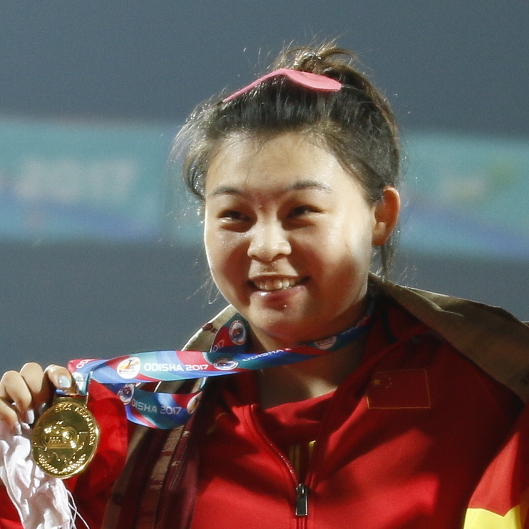 2017 Asian Athletics Championships at the Kalinga Stadium in Bhubaneswar, India